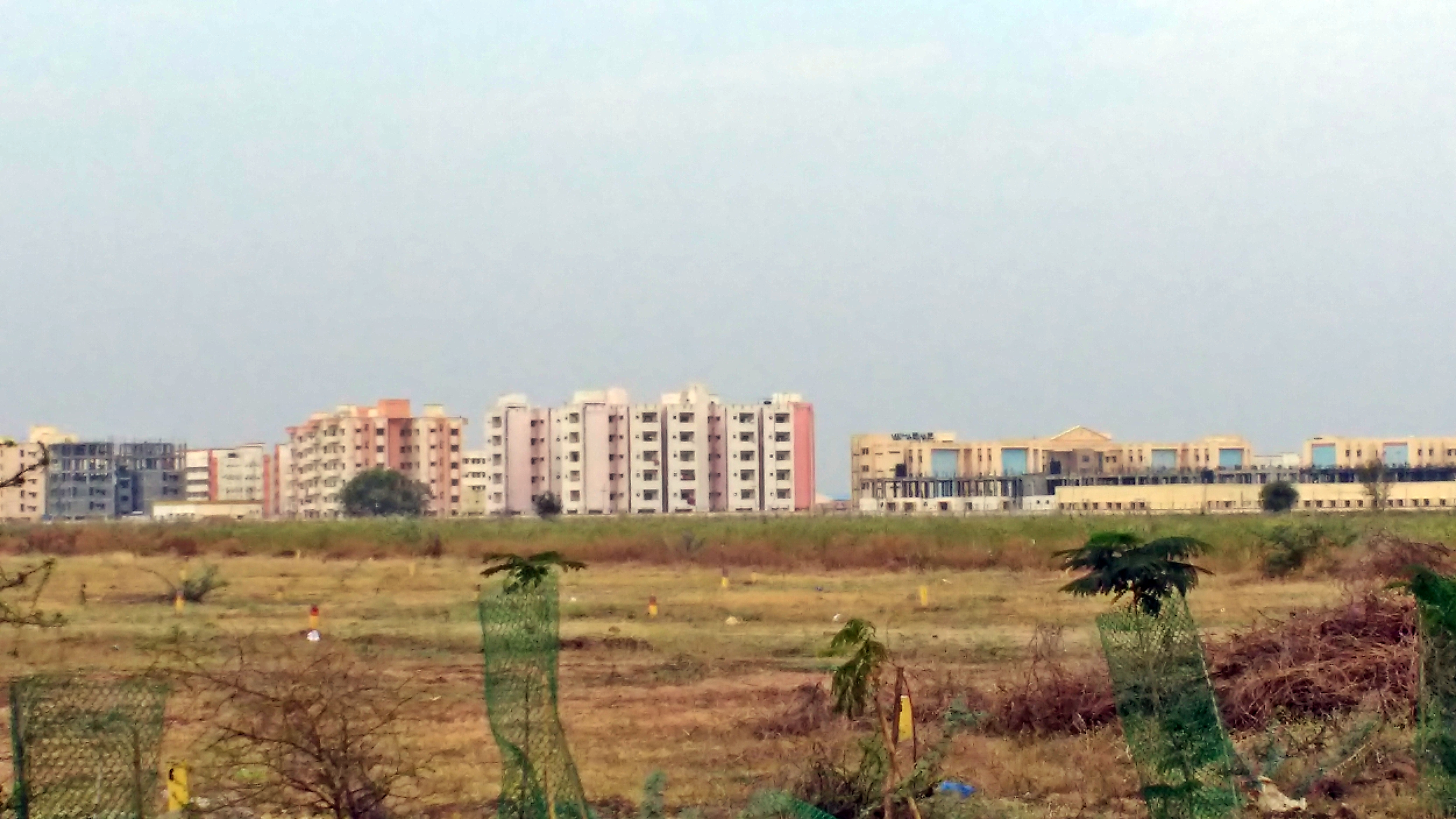 RGUKT, Basar as seen from Nizamabad - Basar Road.